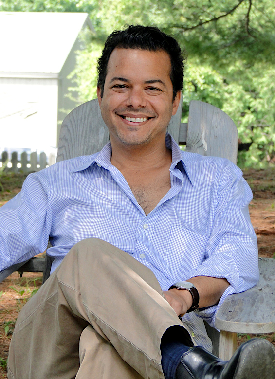 John Avlon pictured in North Carolina in July 2012.